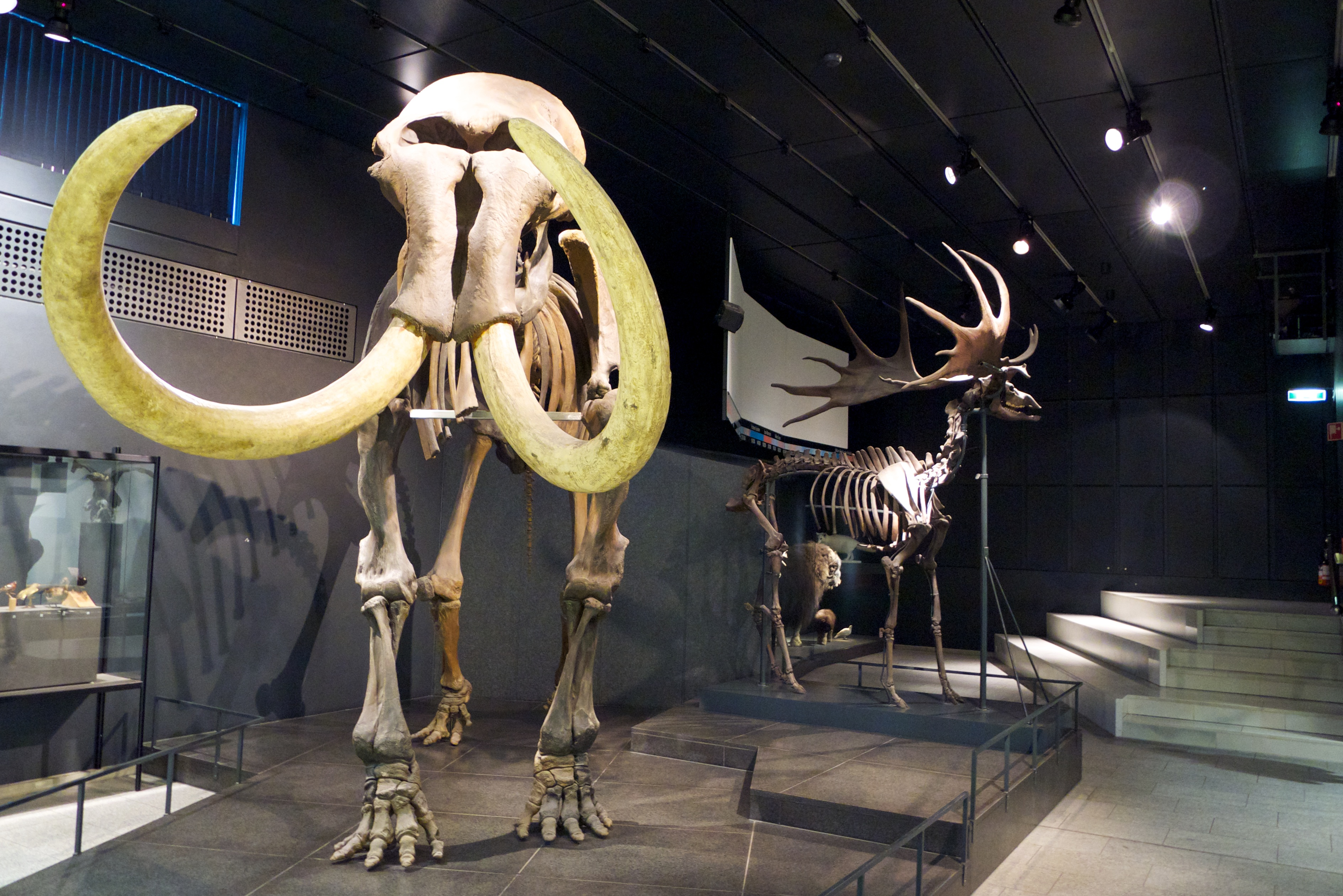 Skeleton of Woolly mammoth, Mammuthus primigenius, in the background a skeleton of an Irish Elk. Permanent exhibition of the Zoologisches Museum Zürich, University of Zurich, Switzerland.